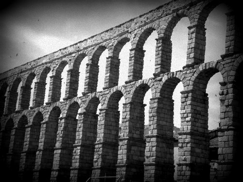 Professional Photographer David Adam Kess - A Black and White Photo of the Aqueduct of Segovia in Spain - The Aqueduct, one of the best preserved ancient monuments and has 44 double arches (or 88 when counted individually) and 79 single arches -- a total of 167. The Aqueduct of Segovia was built during the reign of Roman Emperor Trajan and is still in use today, carrying water from the Frío river to the town of Segovia. The bridge, which consists of 24,000 granite blocks, was constructed without the use of mortar and each of its 167 arches is more than nine meters high. The Aqueduct of Segovia was completed in AD 50. more info at the wikipedia page